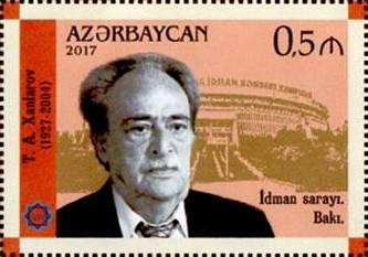 Union of Architects of Azerbaijan. N 1309 - 50 qapik. - There are pictured Talat Khanlarov and Sport and Concert Palace in Baku on the stamps.